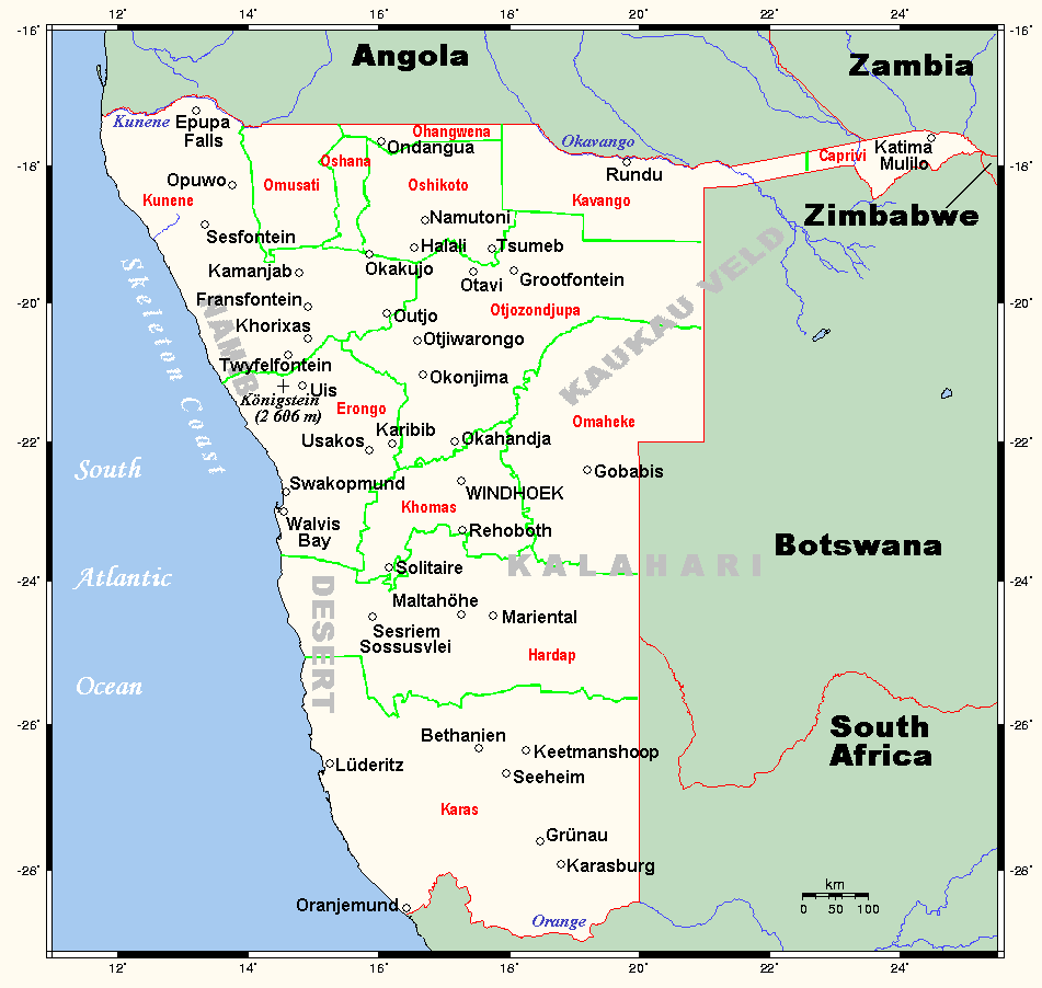 A map of Namibia showing cities and towns, political boundaries, various physical features, and rivers.